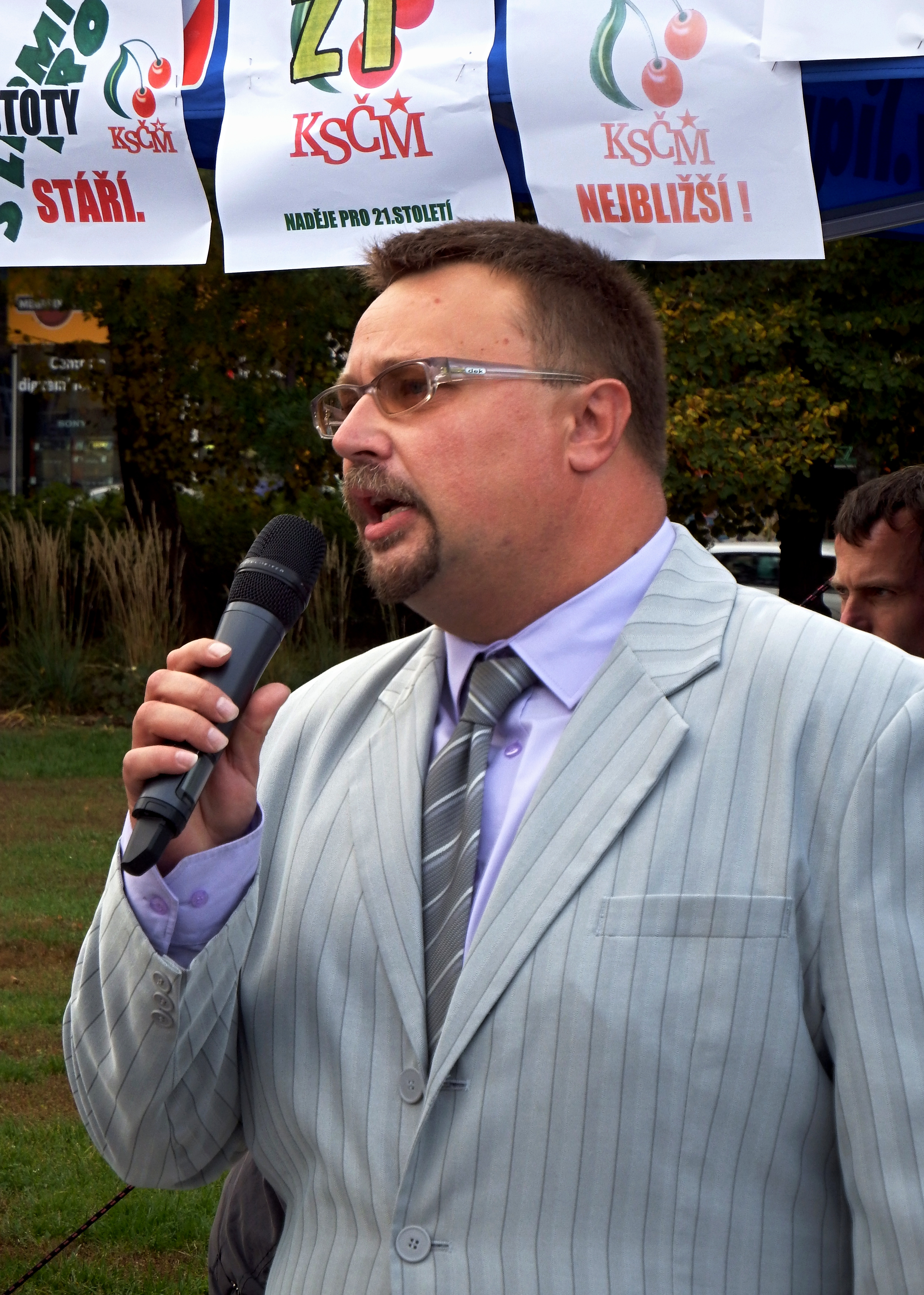 A candidate for election to the Czech Parliament. Taken at preelection rally of the Communist Party of Bohemia and Moravia. Moravian sq., Brno, Czech Republic.